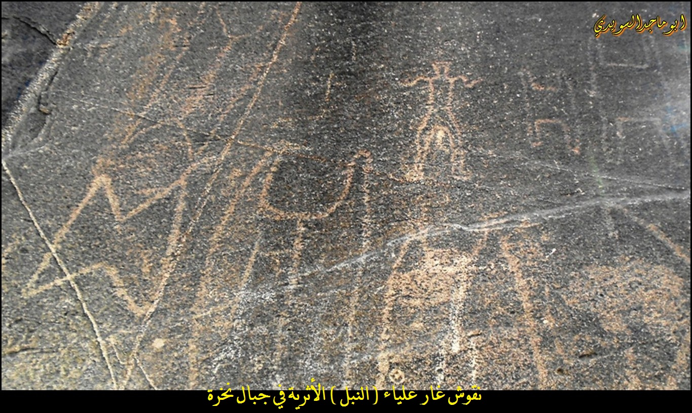 Inscriptions and traces Center blacks and all Swedish Baremeidh